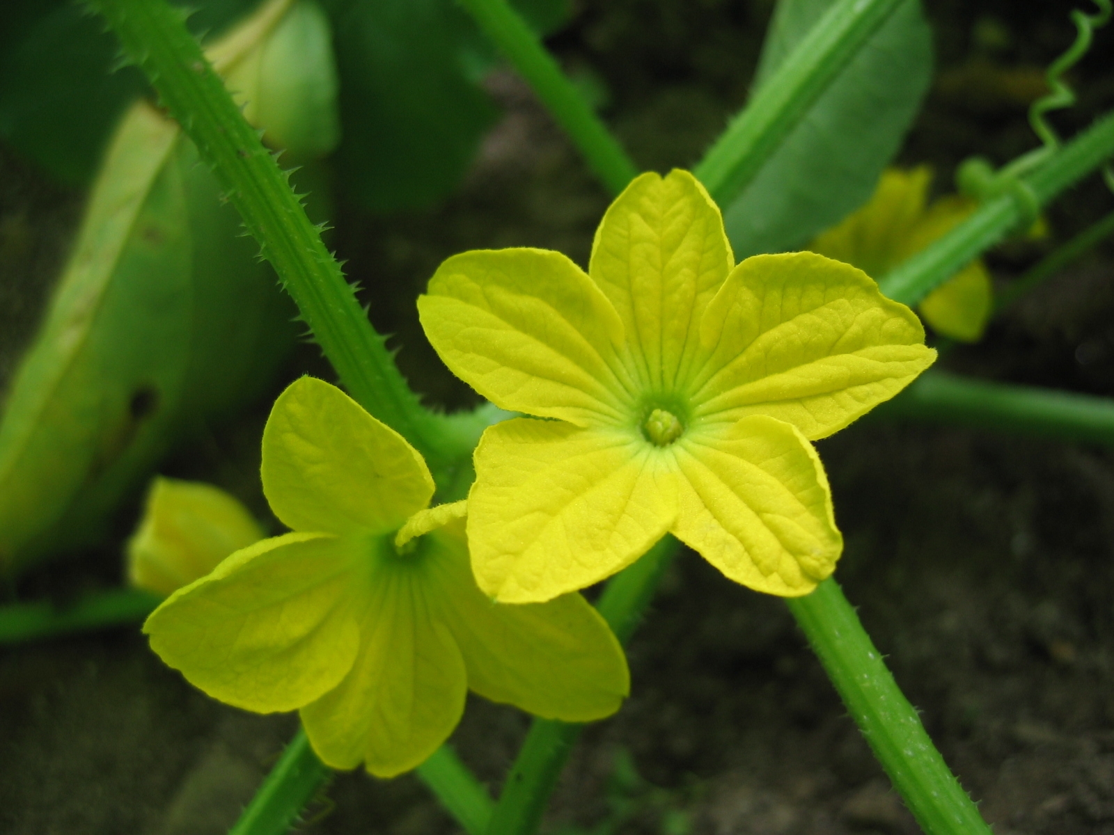 Korean melon (Cucumis melo var. makuwa)